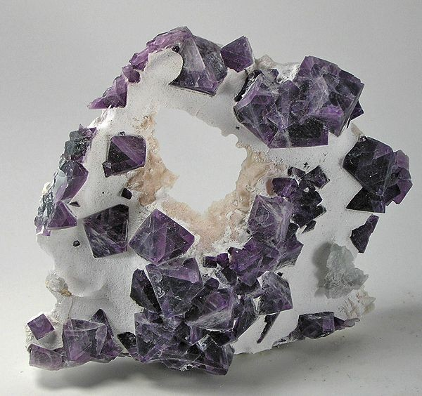 Fluorite, Quartz Locality: De'an Mine, De'an County, Jiujiang Prefecture, Jiangxi Province, China (Locality at ) Size: 15.1 x 11.4 x 5.3 cm. Razor-sharp, dark purple octahedra of fluorite, measuring to 2 cm on edge, embedded in stark white contrasting quartz. This is a very large and rich plate, with a couple of dozen crystals on it.